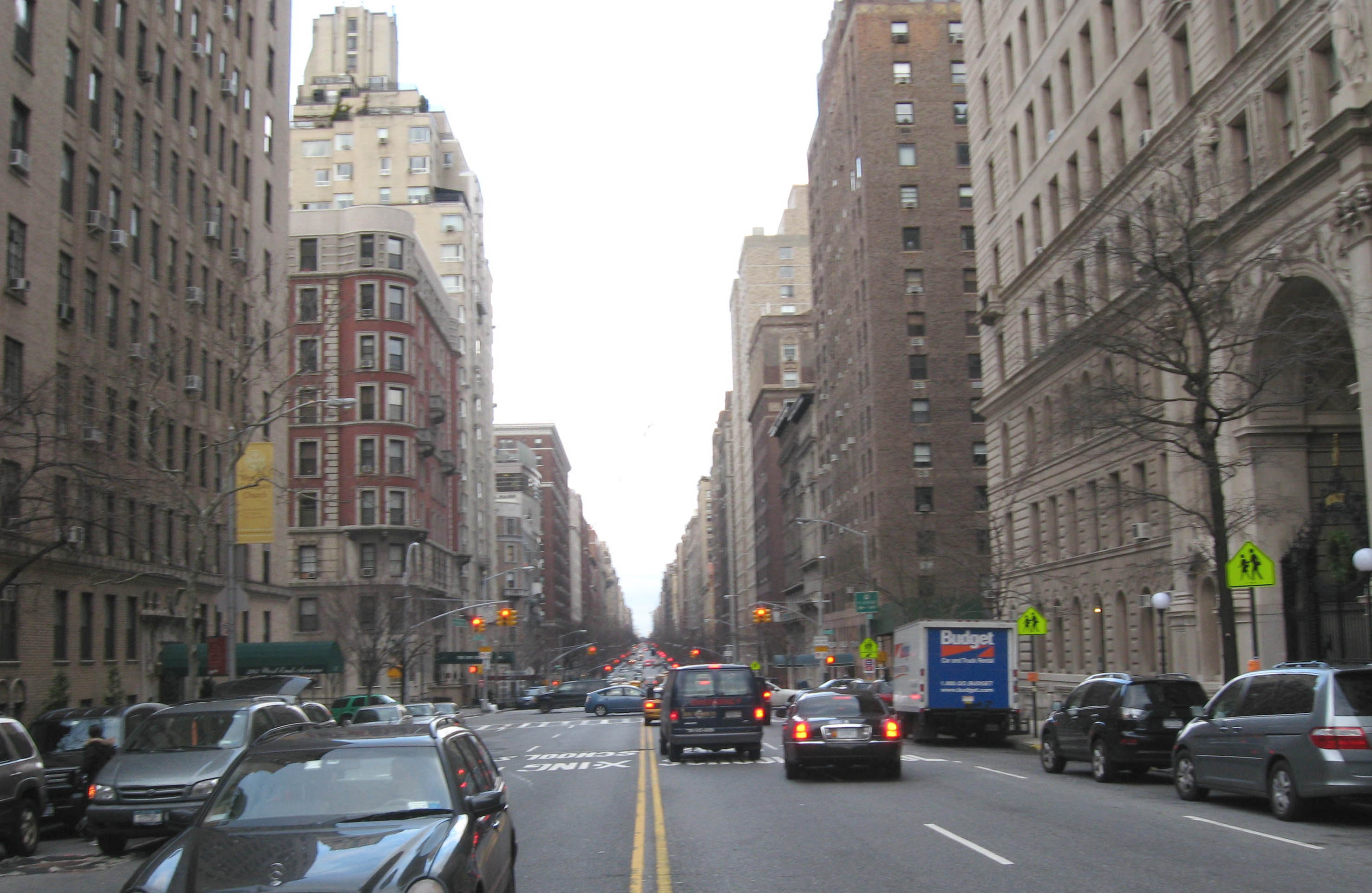 Looking north along West End Avenue past The Apthorp on a cloudy afternoon.